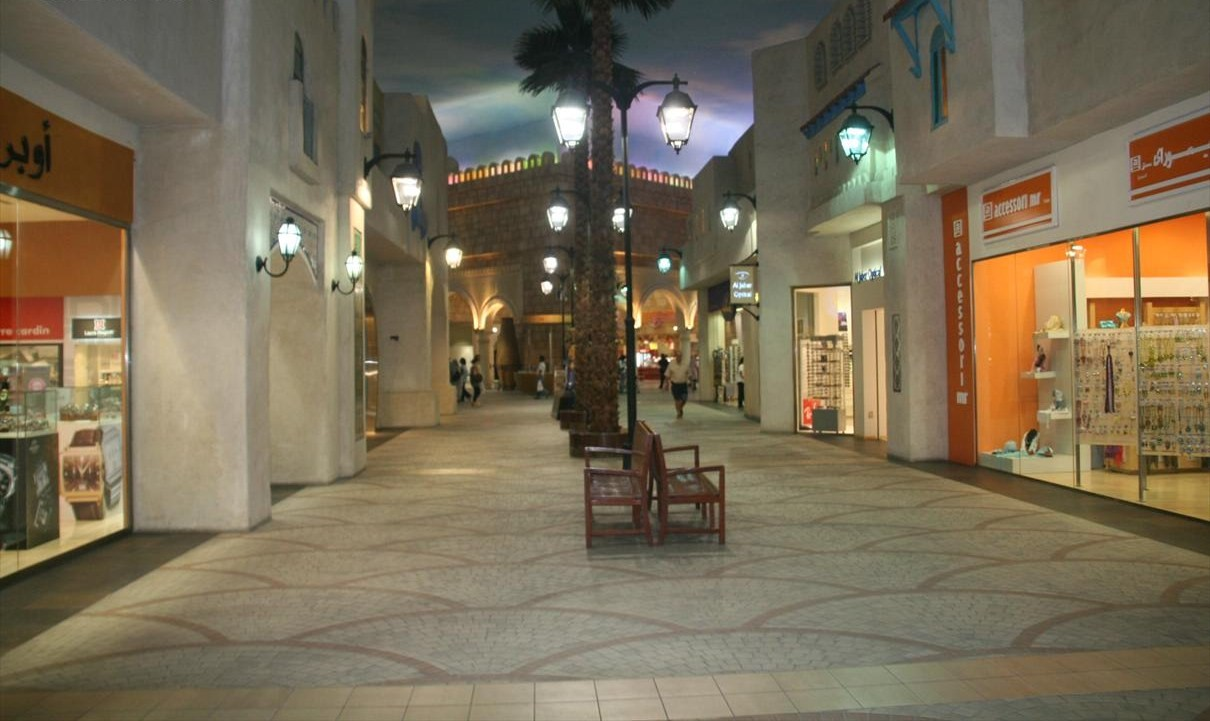 This is a photo showing the interior of Ibn Battuta Mall in Dubai, United Arab Emirates on 2 June 2007.